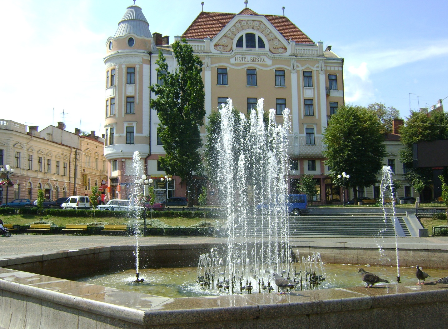 Bristol Hotel of Chernivtsi